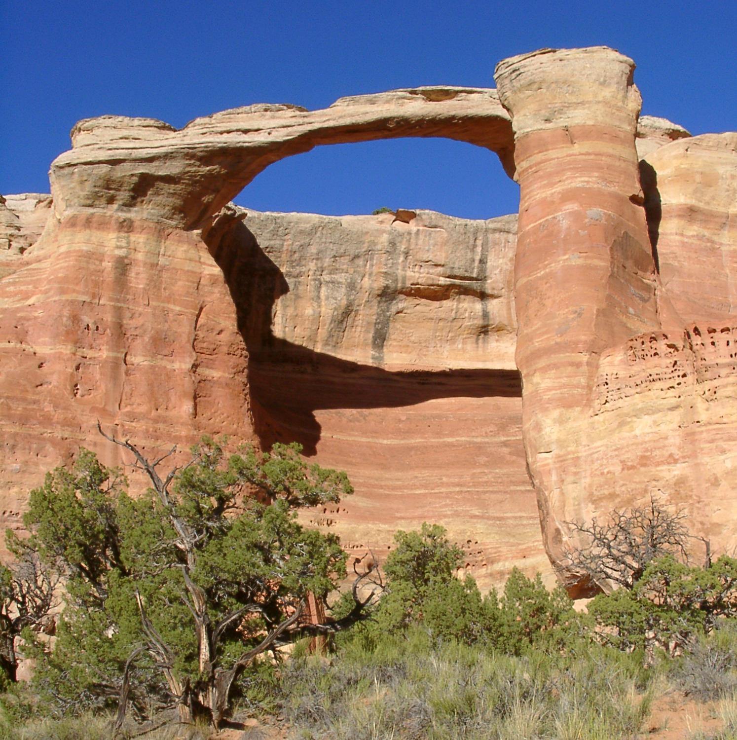 The East Rim Arch in Rattlesnake Canyon, Colorado. Taken 9/14/01 by User:Pretzelpaws with a Casio QV-3000EX camera. Cropped 10/27/05 using the GIMP.